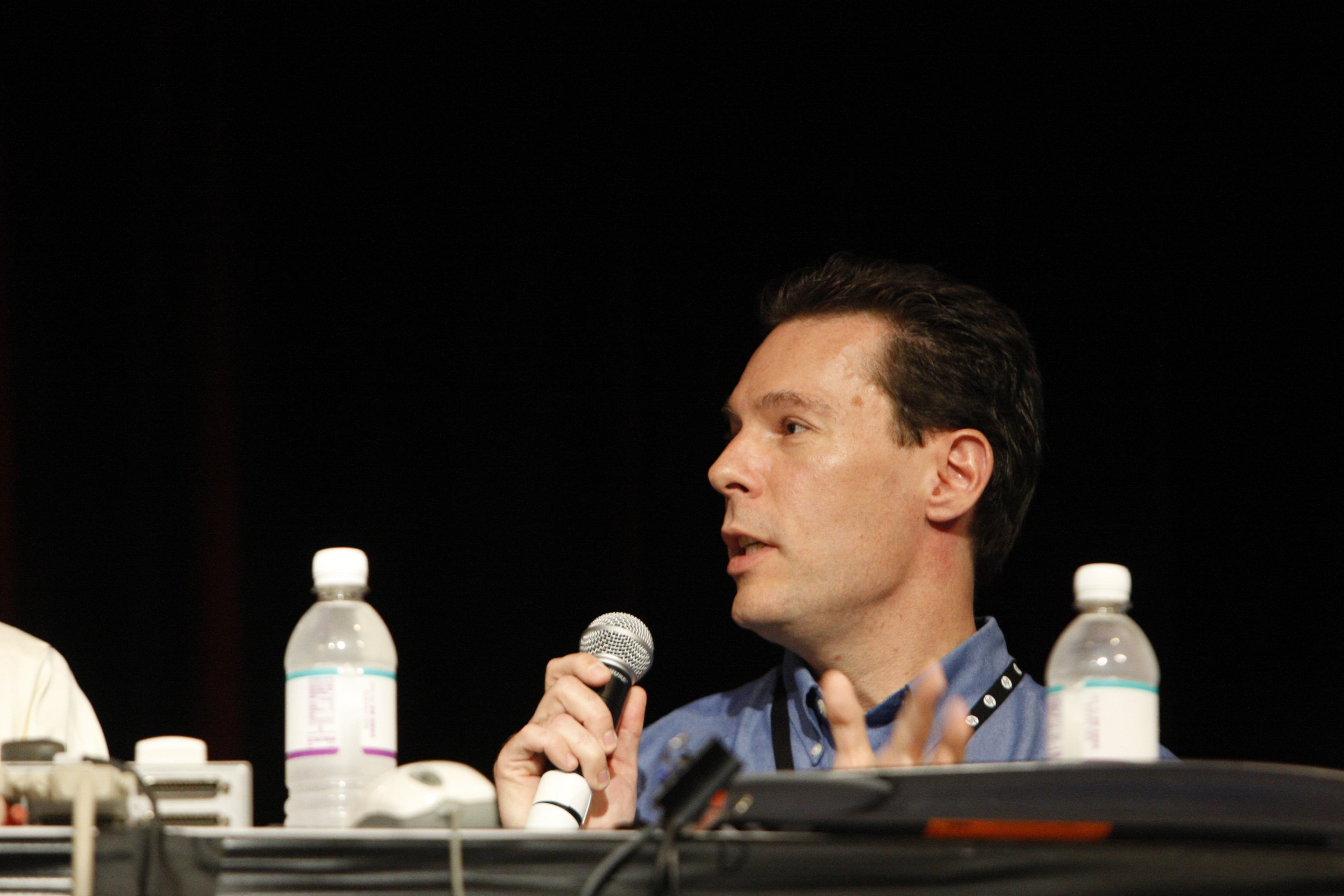 Professional Developers Conference 2009, Technical Leaders Panel: Herb Sutter